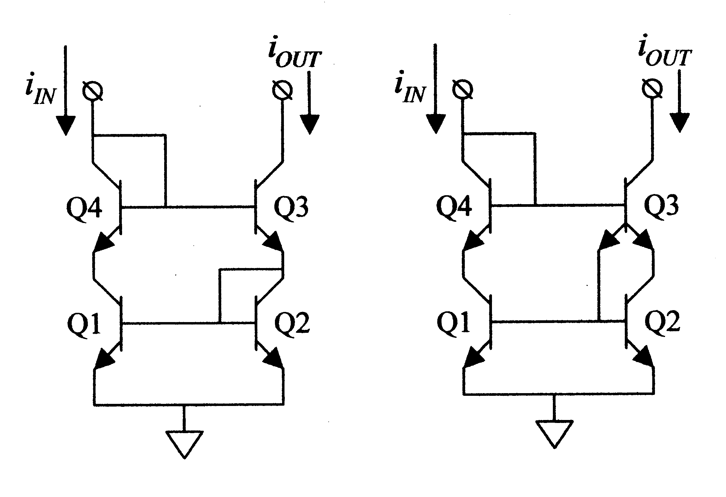 Four transistor Wilson current mirror and dual-emitter variants side by side.